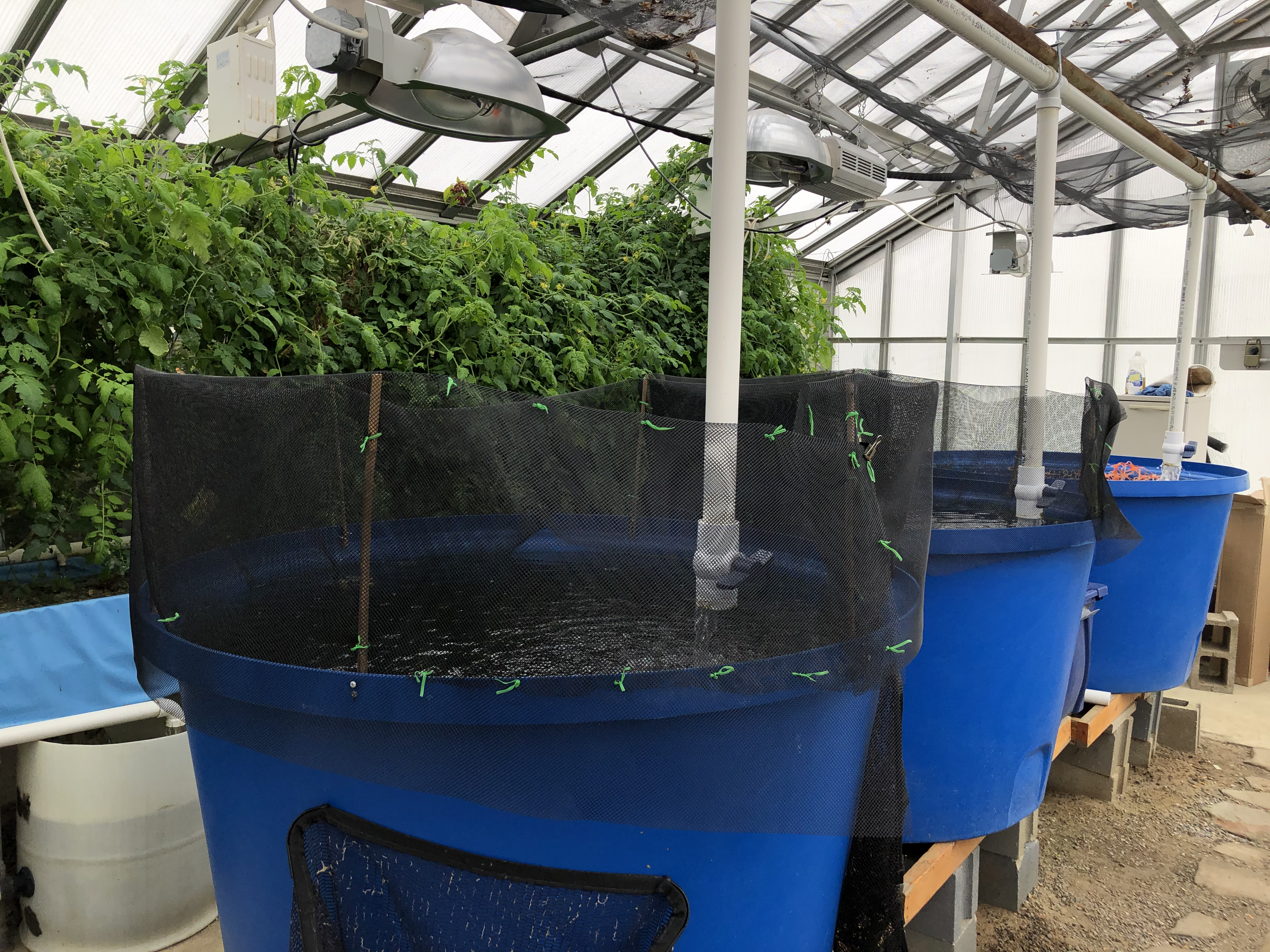 Aquaponics at the Bowling Green State University Biology Greenhouse